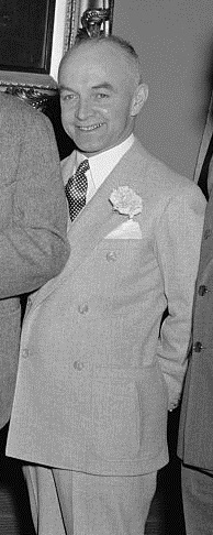 James Seccombe cropped from a May 4, 1939 photo in Washington, D.C.